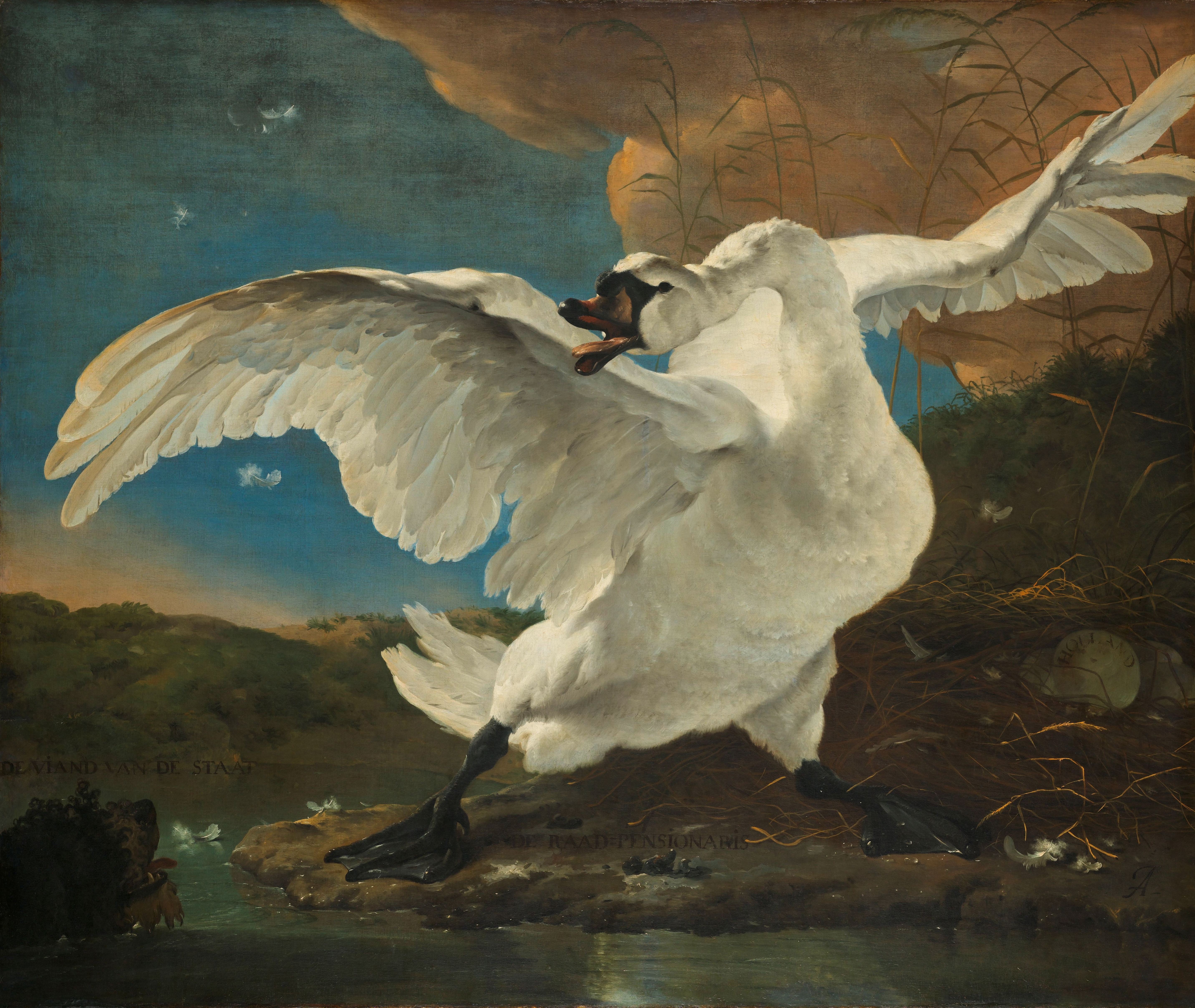 The threatened swan. A swan protects her nest against a dog. The scene was later turned into a political allegory by refering to the swan as Grand Pensionary Johan de Witt, protecting Holland against the Enemy.